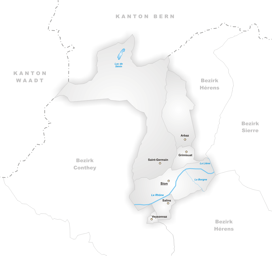 Municipalities of District Sion